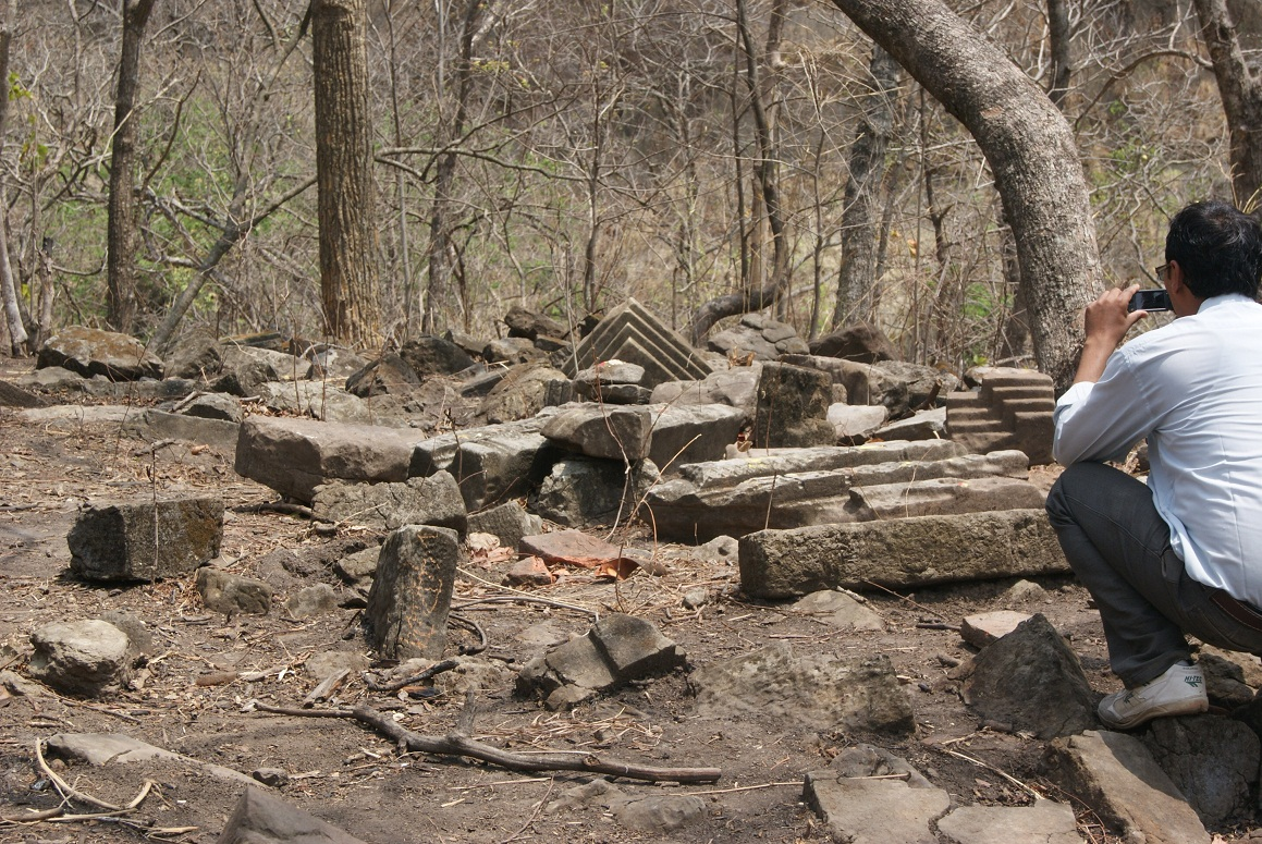 Chandrabhoga Gadhi Situated in Chure Region,Saptari